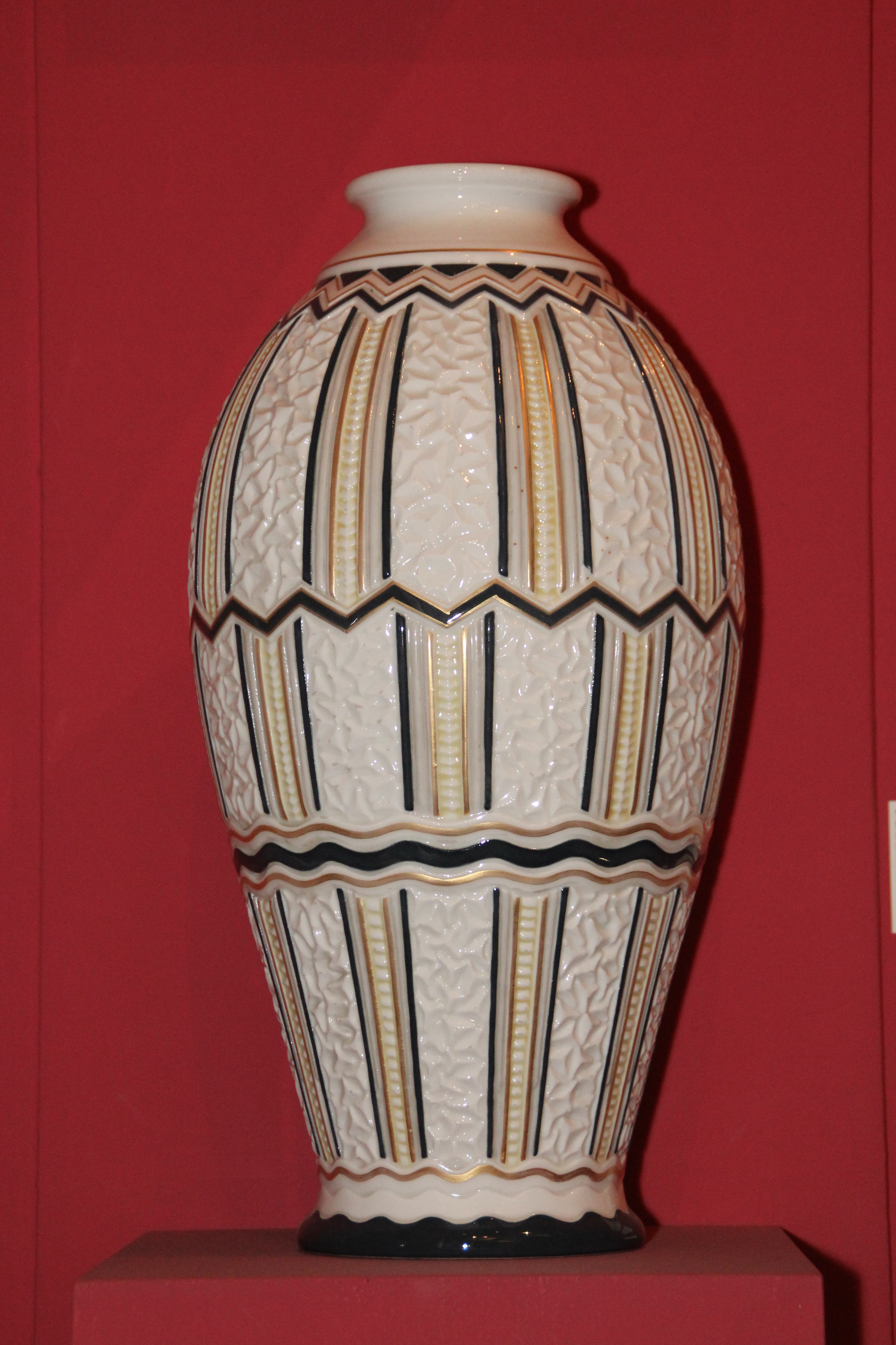 Collections of the Musée national de céramique (National Museum of Ceramics) in Sèvres, France. Vase Aubert N°34 - Sèvre 1925 - Inventory MNC 25544 - by Félix Aubert (1866-1940)